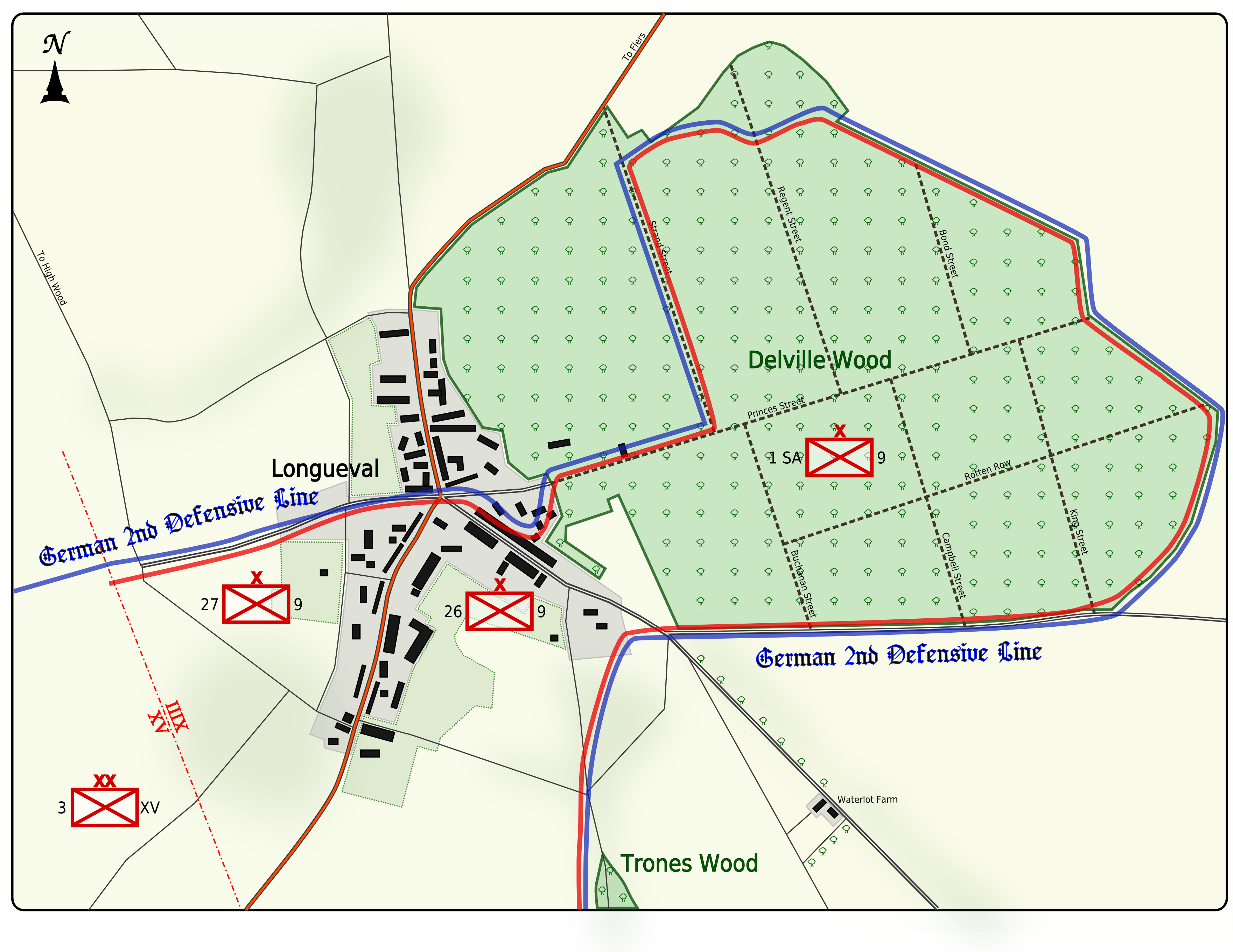 Positions in Delville Wood on 15 July 1916 before German Counter Attack